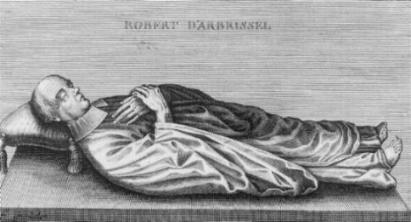 Engraving with the gisant of Robert d'Arbrissel, showing his disappeared tomb at Fontevrault abbey.